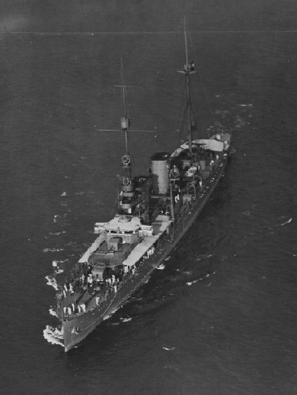 HNLMS Sumatra seen off "Honolulu, Hawaii on or soon after 13 January 1929 when she arrived there en route from the Mare Island Navy Yard." Official USN photograph NH 90782, "copied from a print in the National Archives RG 38, Entry 98, Box 1251, file 16271 and 16271-A; other copies of photographs made at this time are NH87855 to NH 87863").